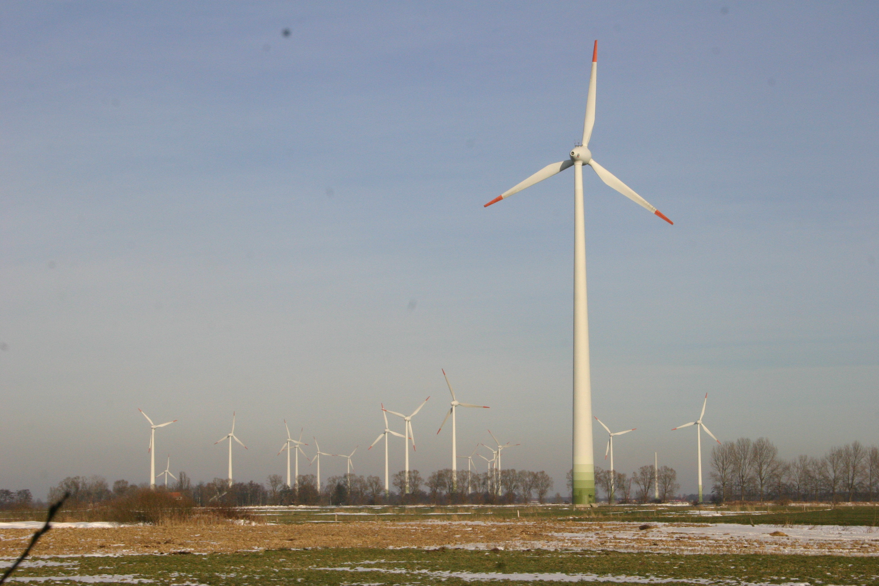 Windmills in Ihlow, district of Aurich, East Frisia, Germany